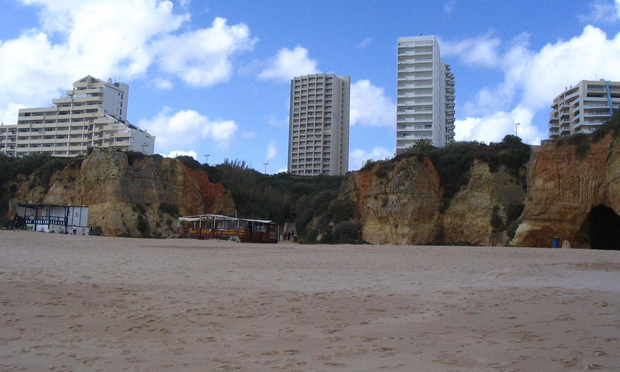 Cliffs to the rear of Praia dos Três Castelos, Portimão, Algarve, Portugal